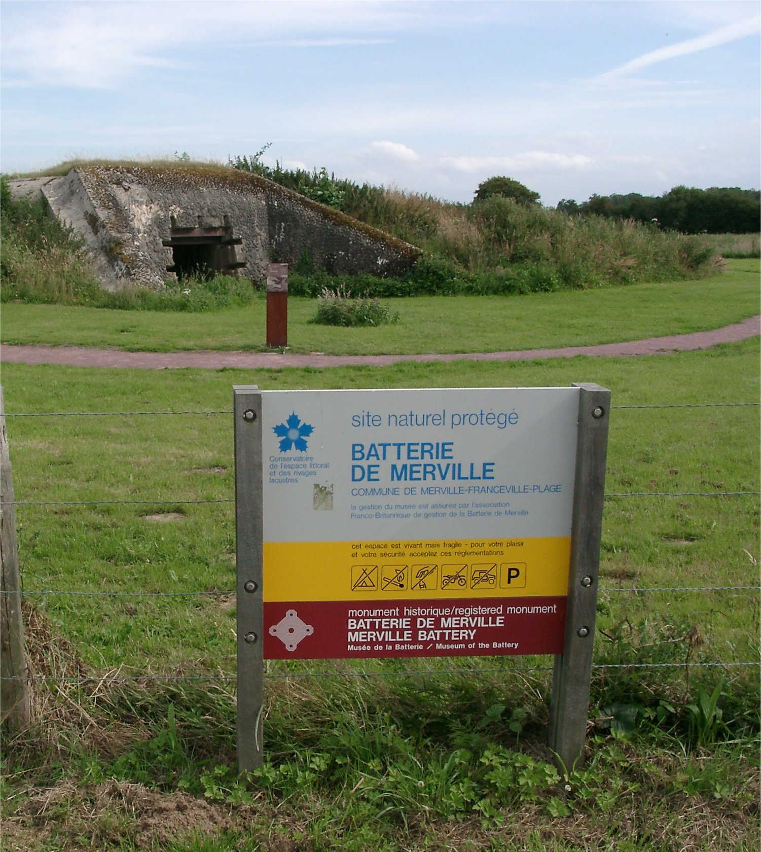 bunker of the Merville battery neutralized by the 9th Battalion of the Parachute Regiment at dawn of D-day